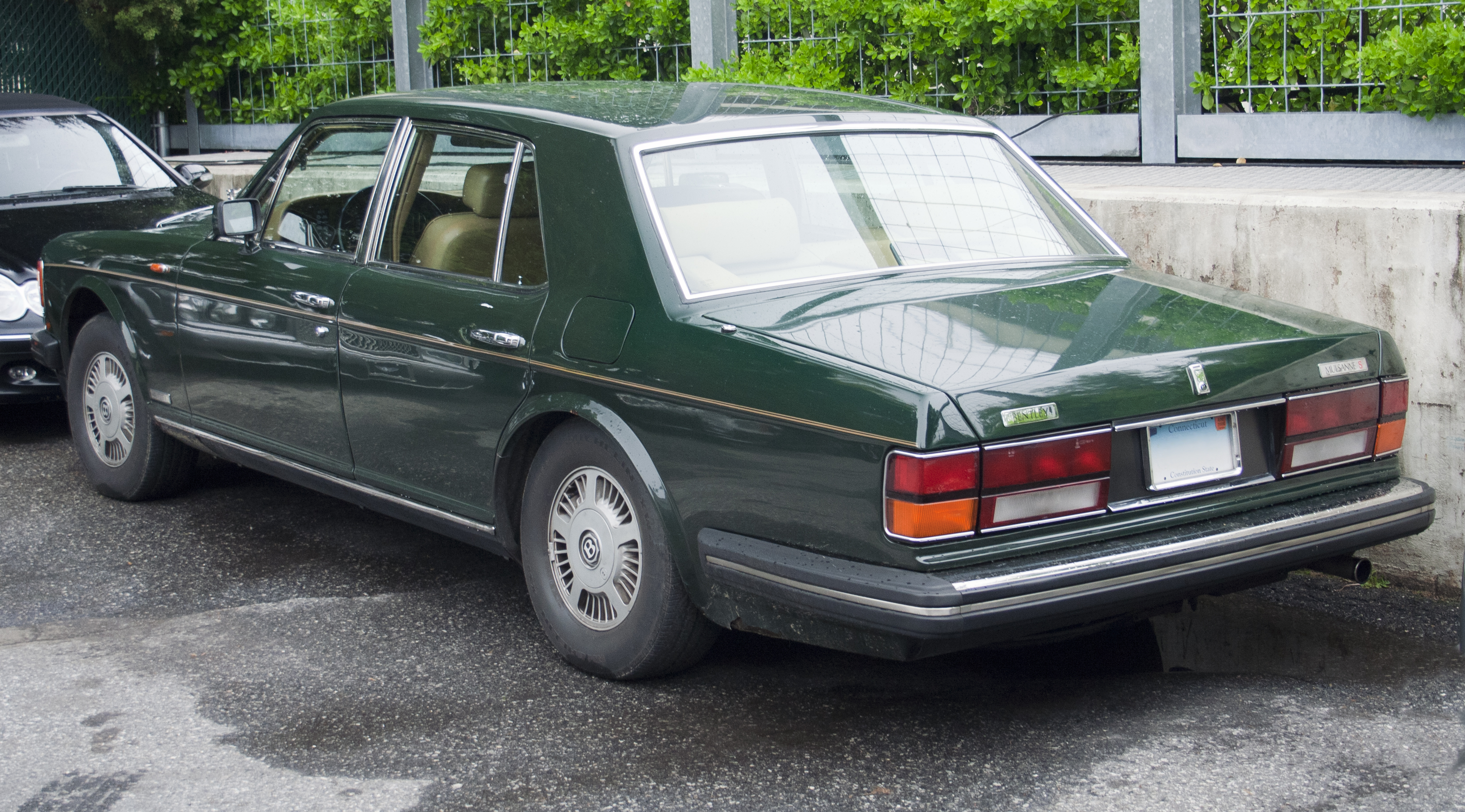 Bentley Mulsanne S, a sporting naturally aspirated version sold between 1987 and 1992.